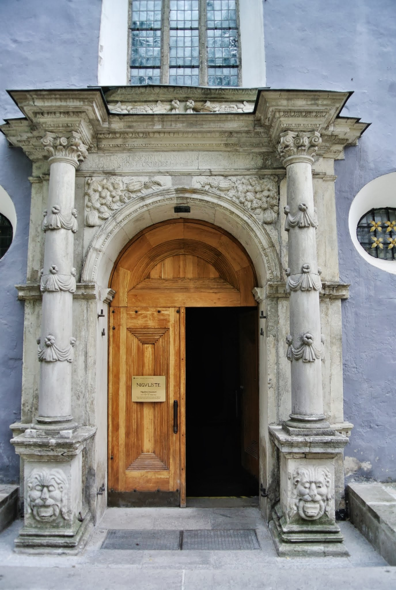 Old Town of Tallinn, Tallinn, Estonia